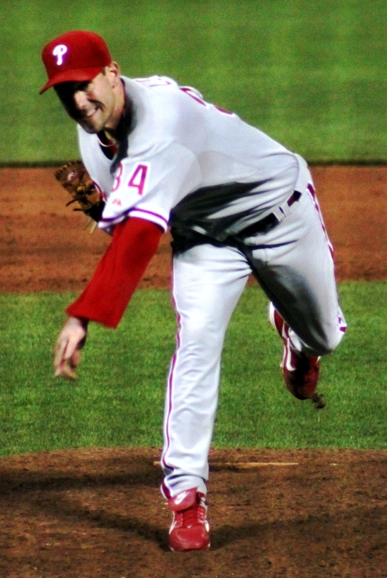 Cliff Lee pitching for the first time as a member of the Philadelphia Phillies.